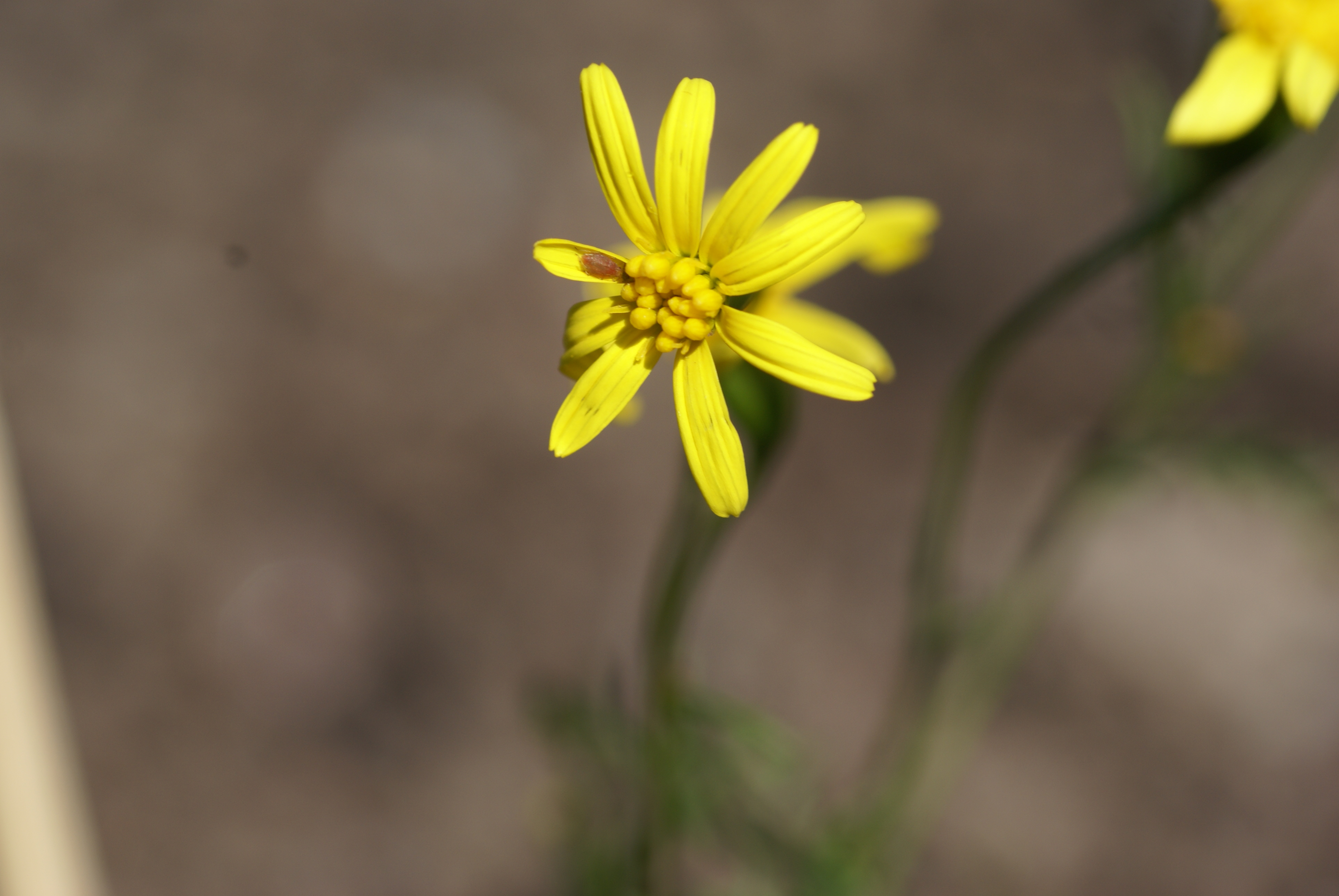 Plant species Steirodiscus tagetes in Bergianska trädgården in Stockholm, Sweden.